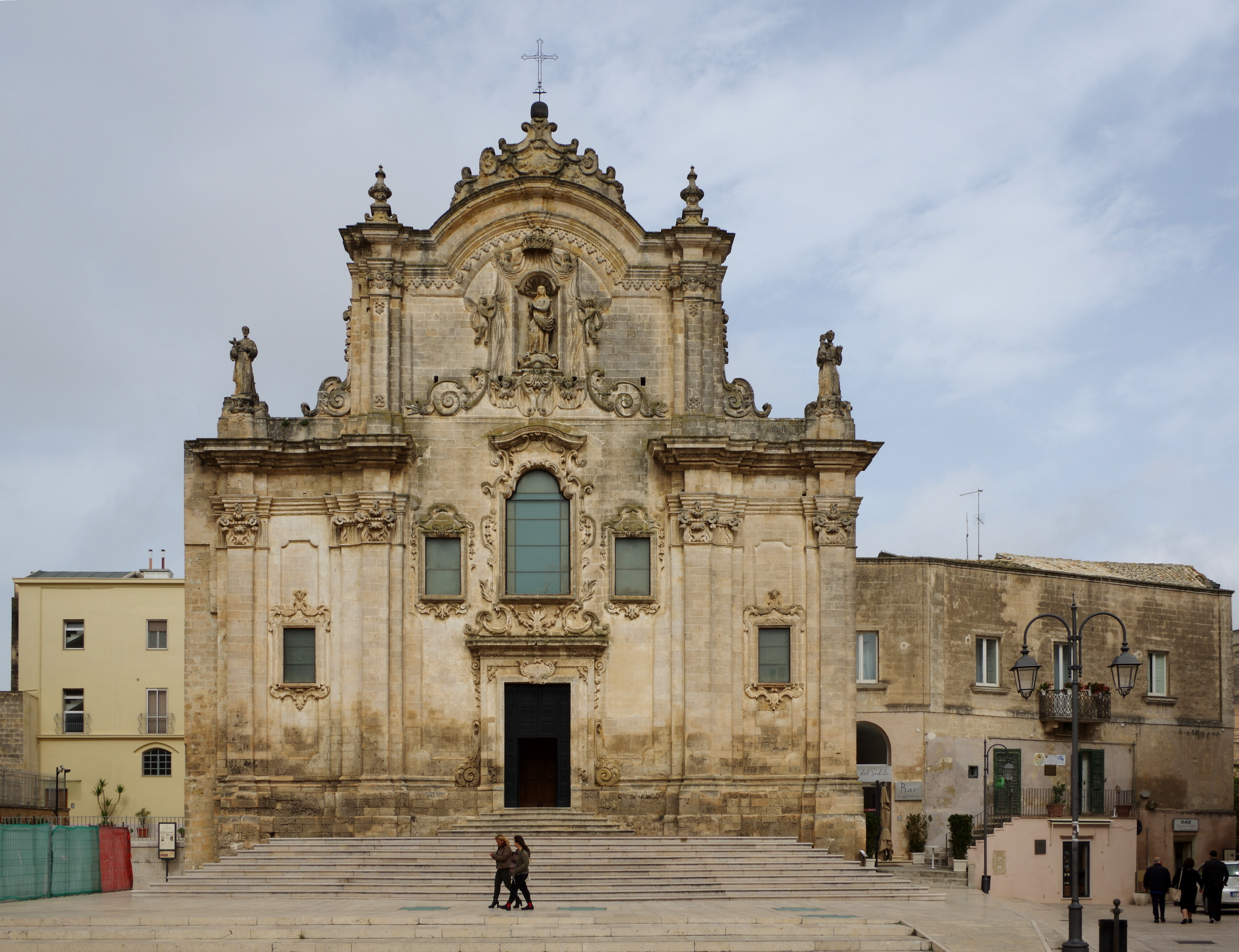 Italy, Matera, San Francesco d'Assisi